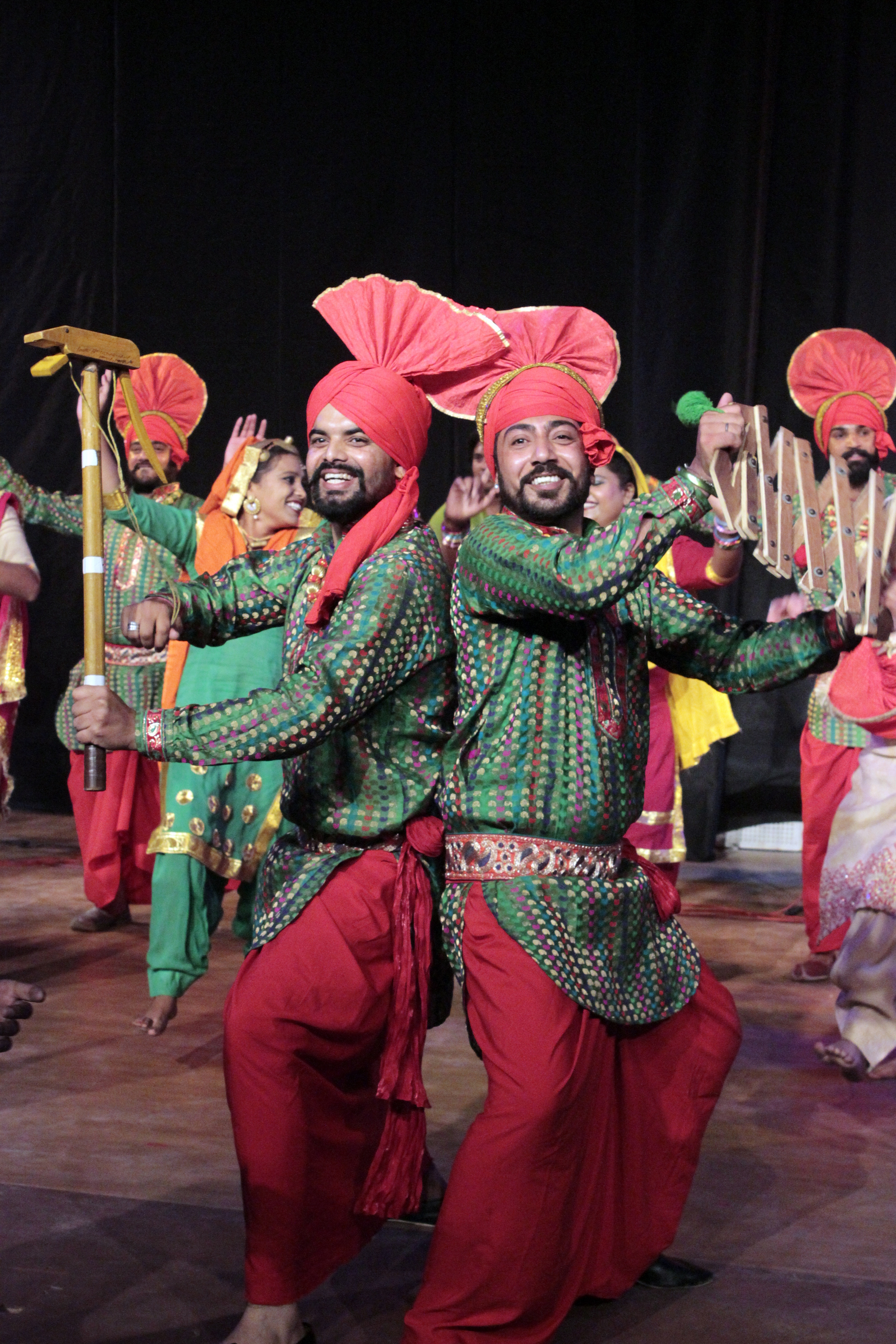 Punjabi Folk dance Gaidda Boliya and Bhangara at Bhopal